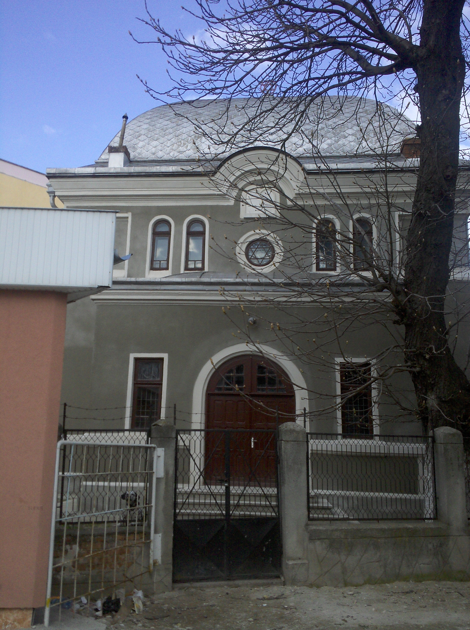 sinagogue of Roman